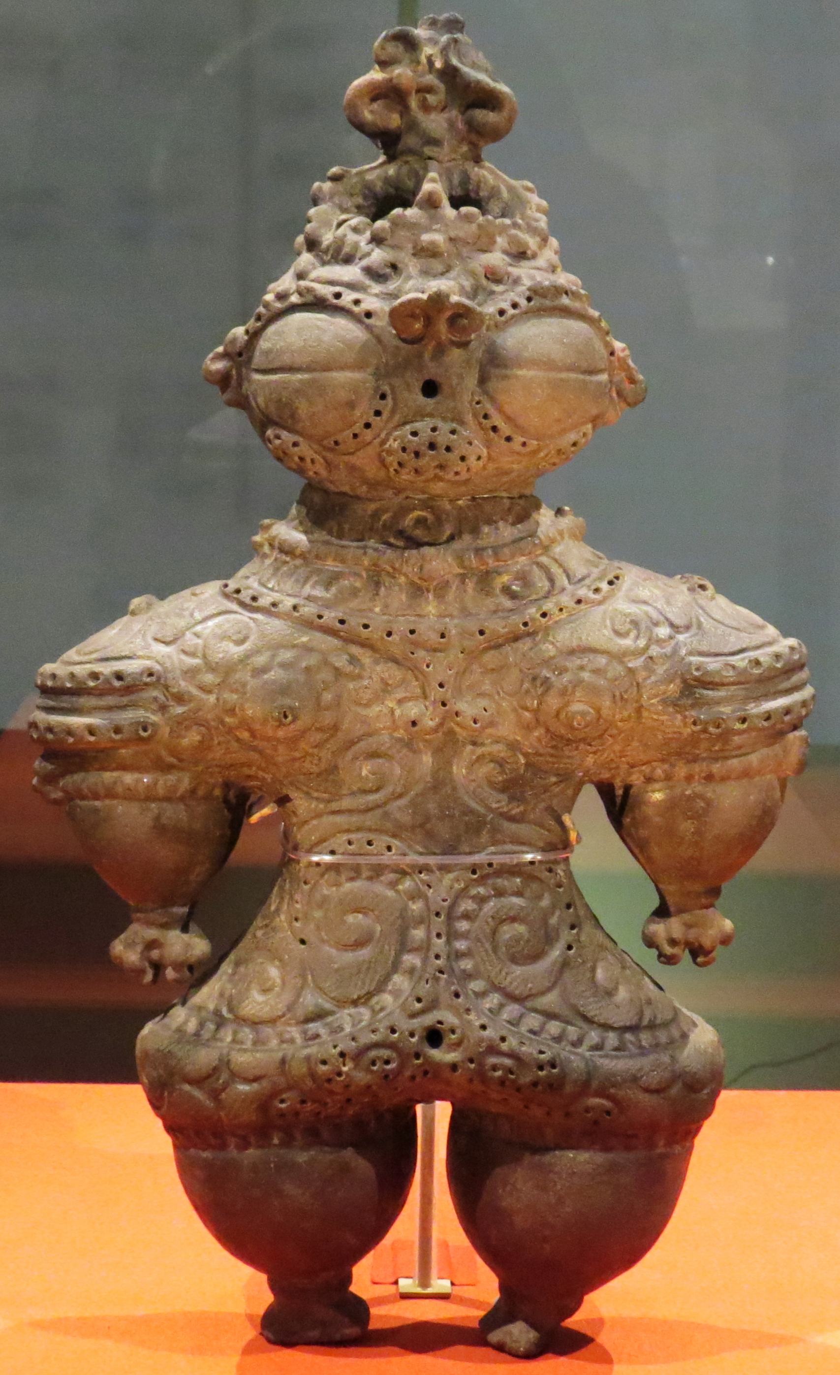 Clay statue, late Jomon period (1,000- 400 BC), Tokyo National Museum